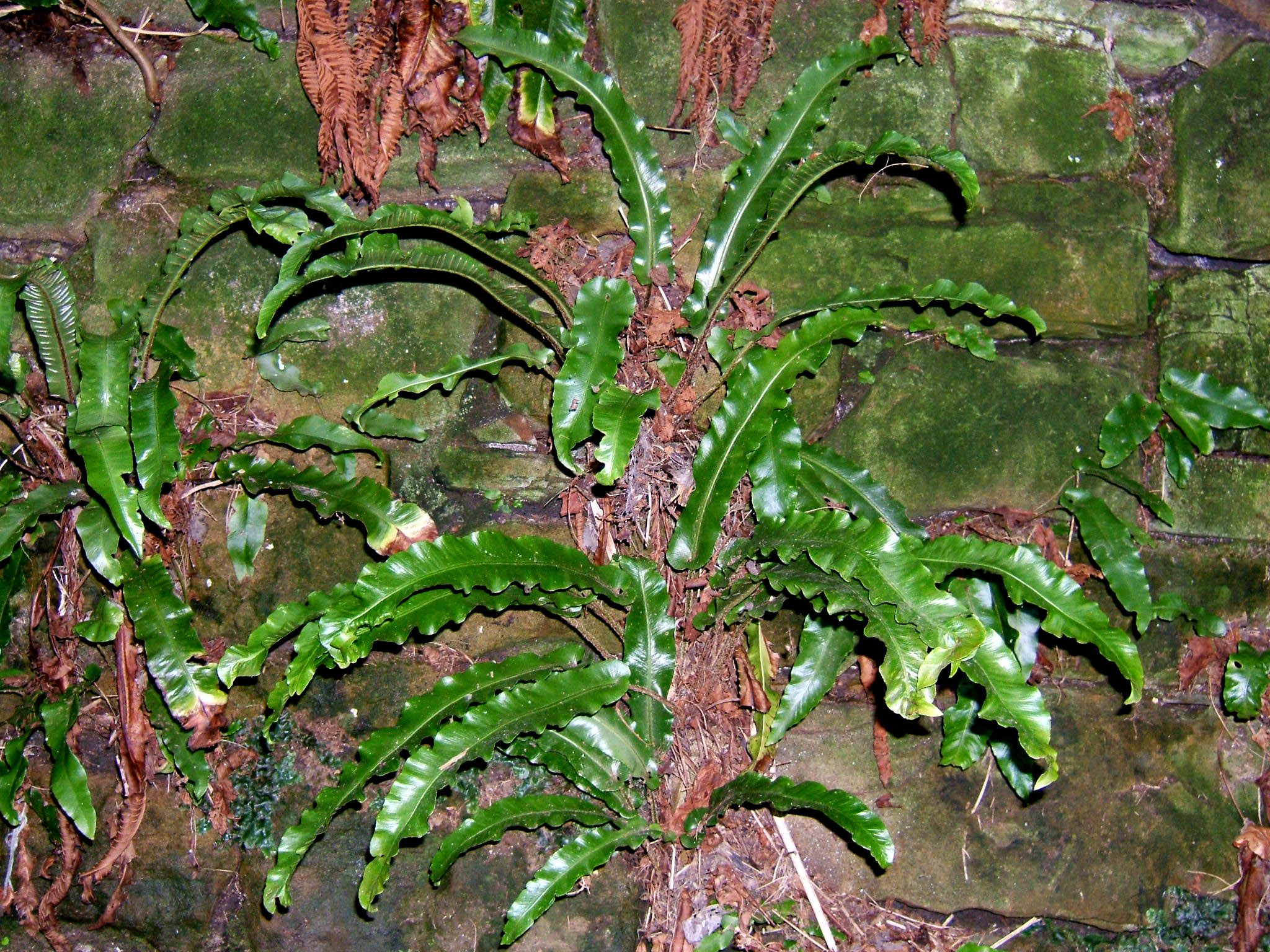 Asplenium scolopendrium growing on an old retaining wall by a stream, Newcastle, Northumberland, UK. August 2005.